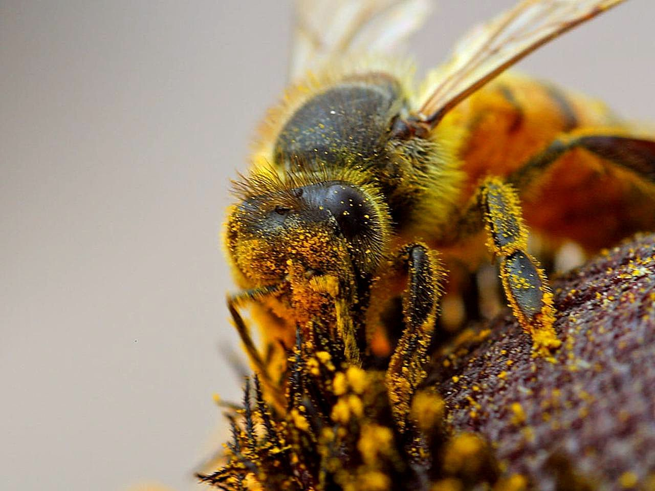 Image title: Honeybee apis mellifera collecting pollen Image from Public domain images website